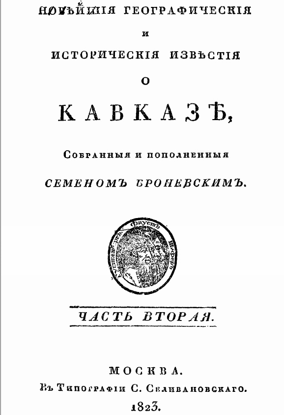 Historical news about Caucasus, 1823